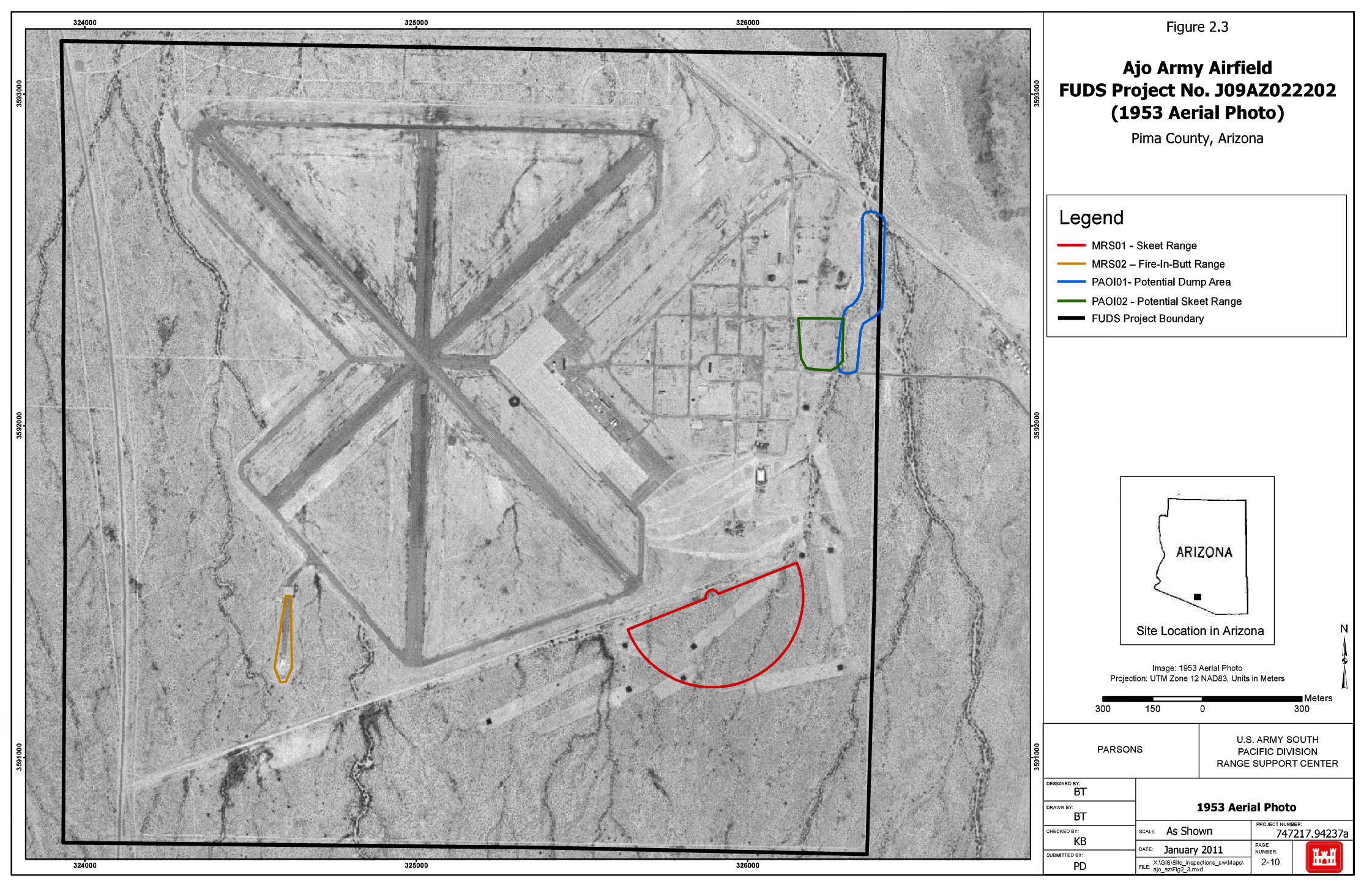 Ajo AAF 1953 ACOE